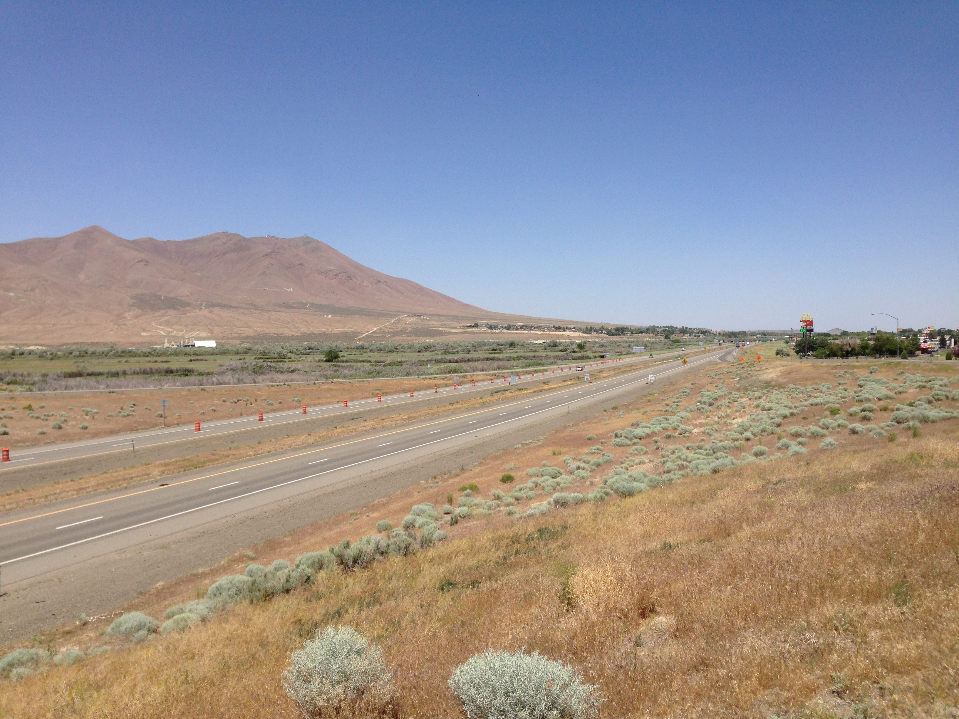 View east along Interstate 80 from the Exit 176 overpass in Winnemucca, Nevada